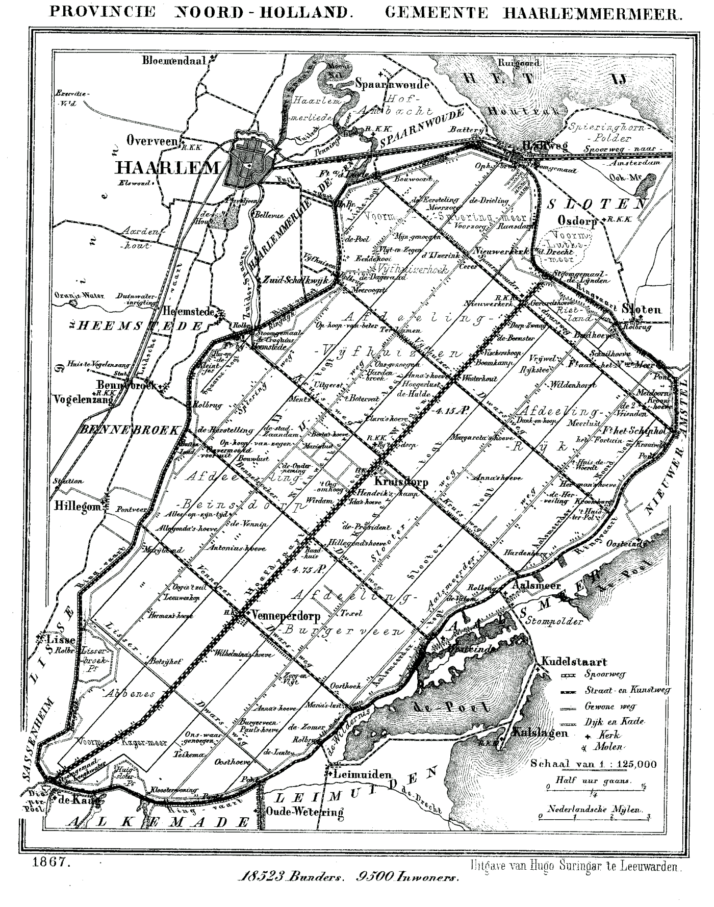 Historic map of Haarlemmermeer, the Netherlands